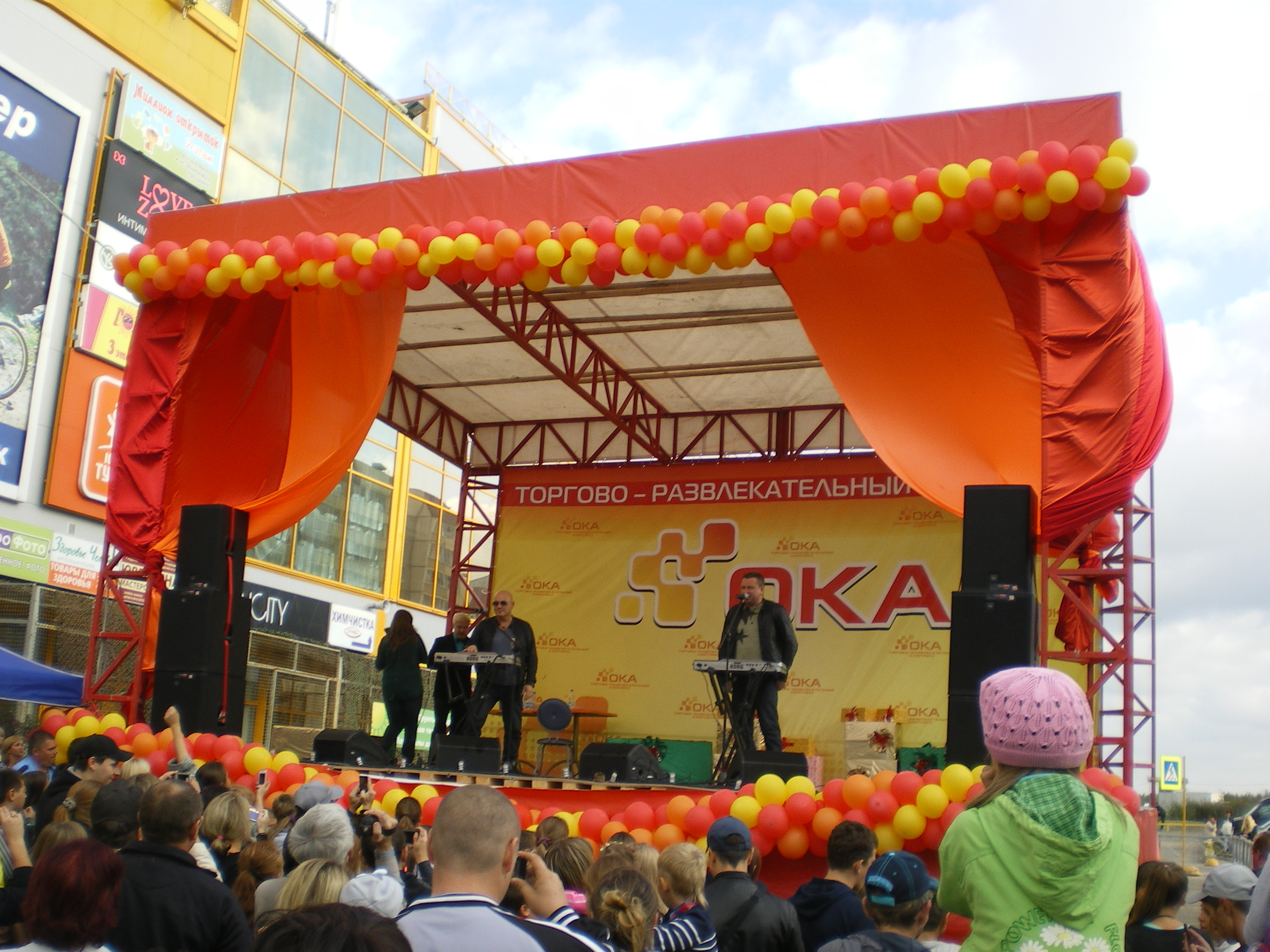 Russkiy Razmer in Kolpino